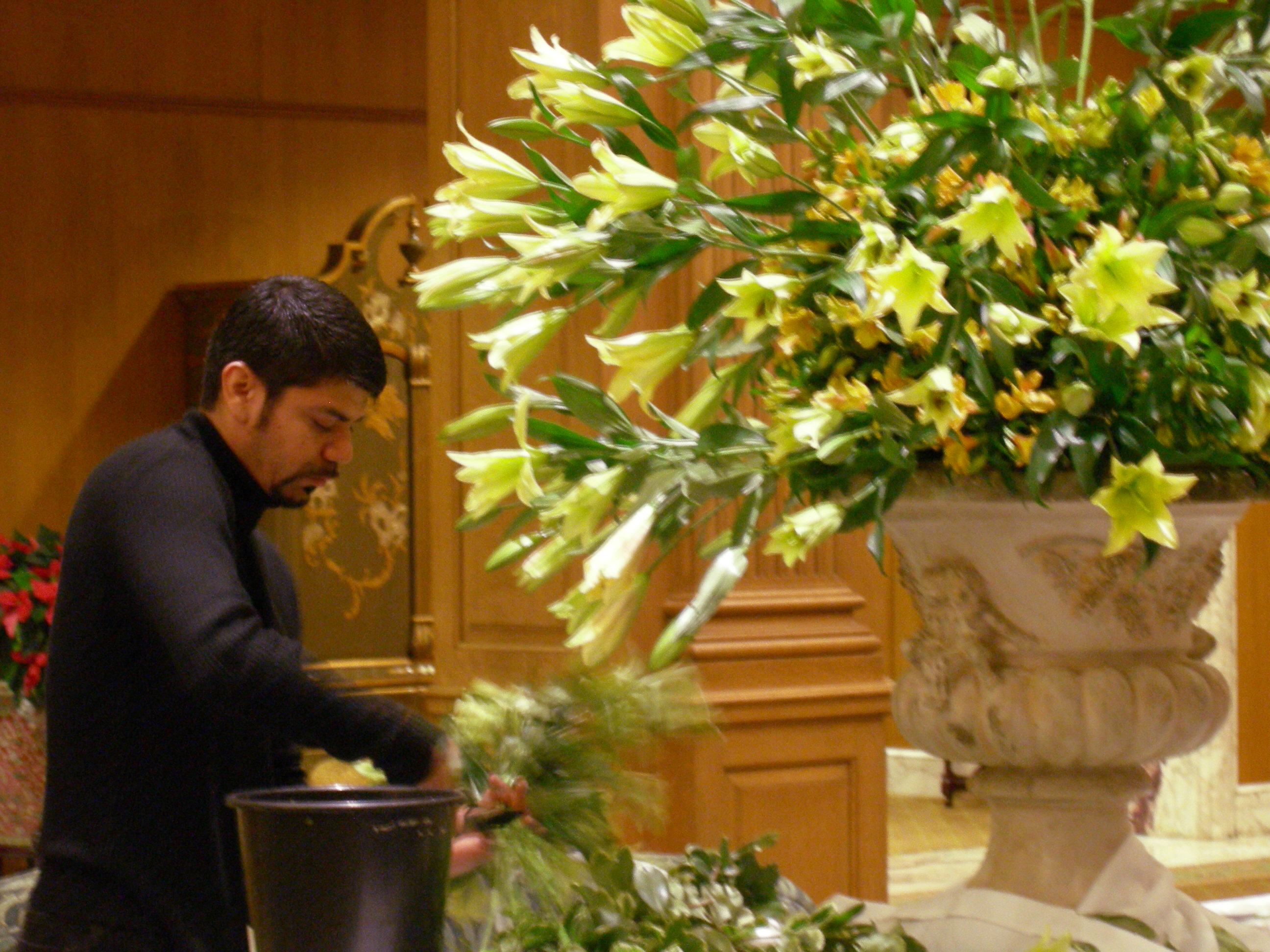 Arranging floral display in the lobby of the Olympic Hotel, Seattle, Washington. The hotel is on the National Register of Historic Places.